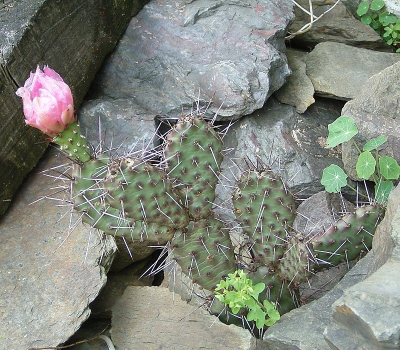 Opuntia polyacantha